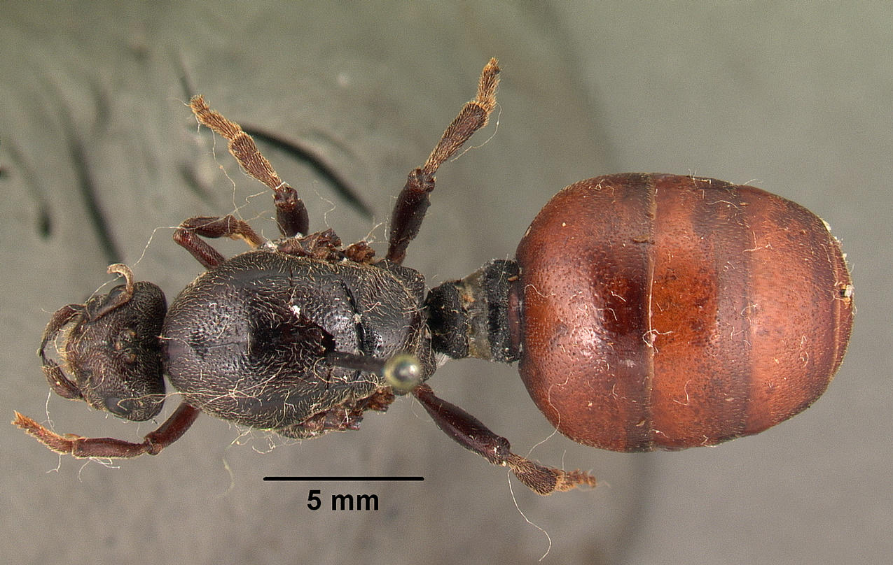 Dorsal view of ant Carebara vidua specimen casent0101463.